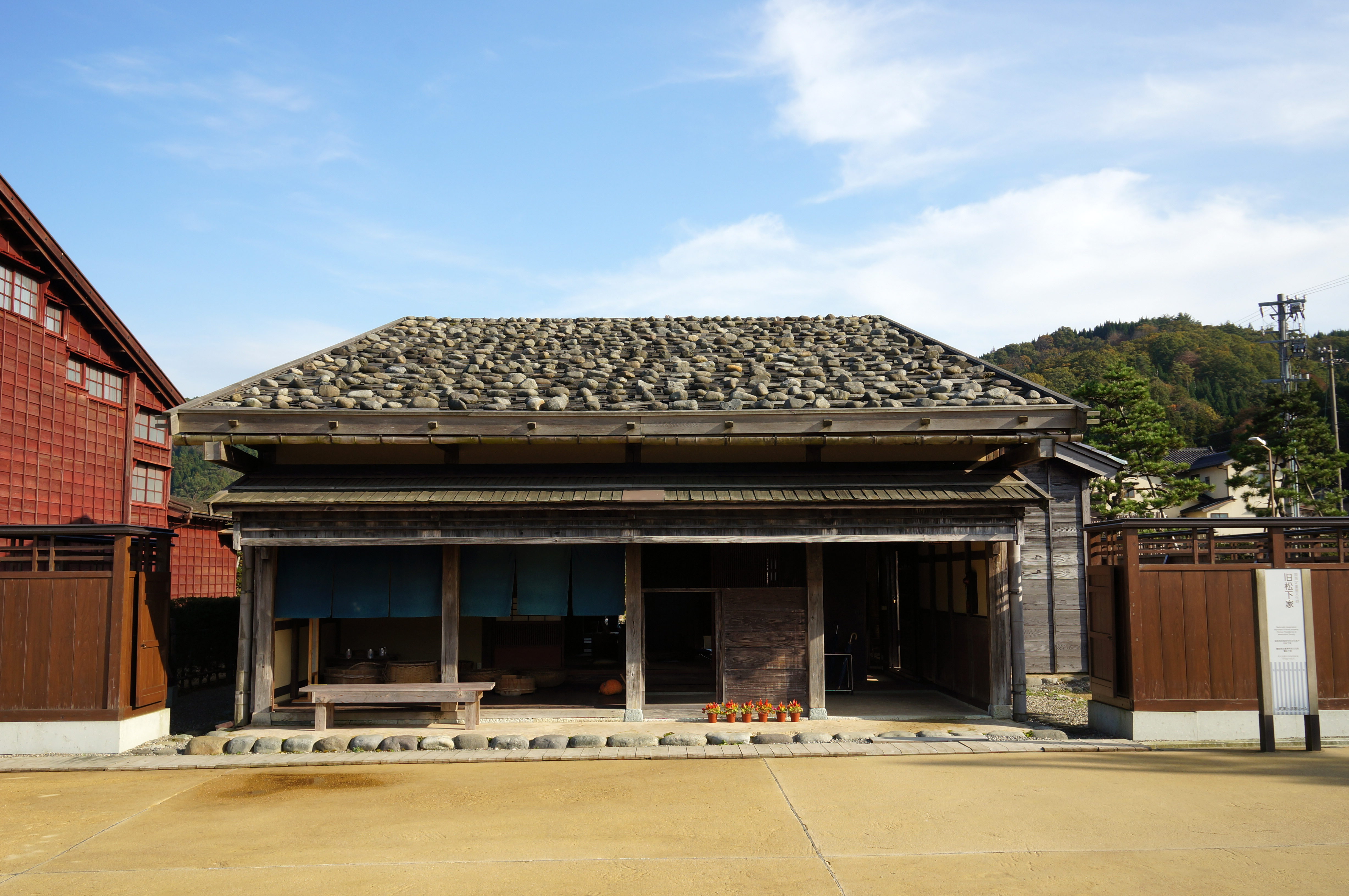 At Kanazawa Yuwaku Edomura in Kanazawa, Ishikawa prefecture, Japan.